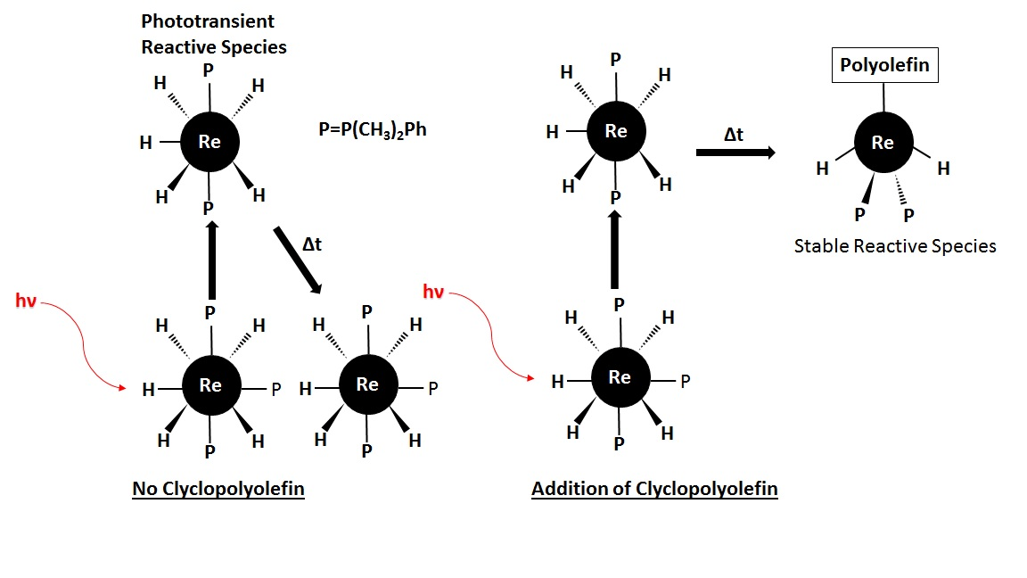 Diagram of a polylolefin trapping a phototransient rhenium intermediate to create a reactive stable species.